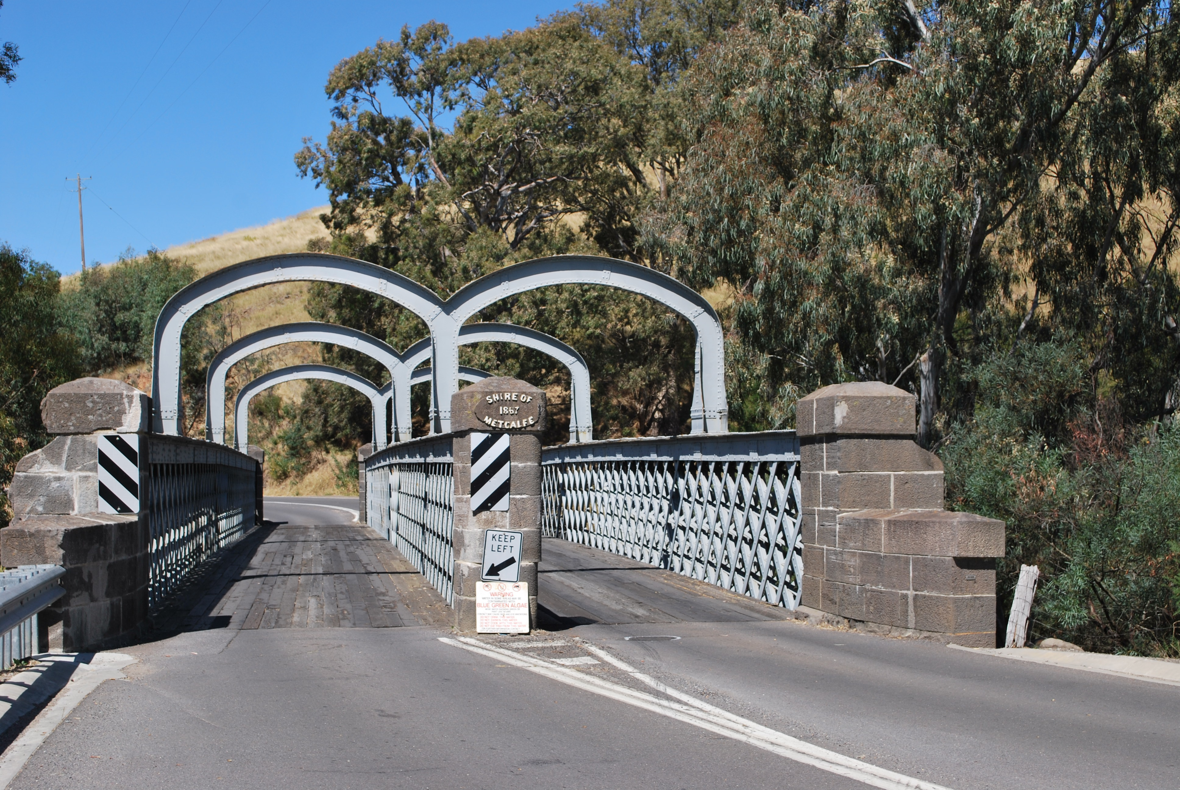 The Redesdale Bridge over the Campaspe River at Redesdale, Victoria